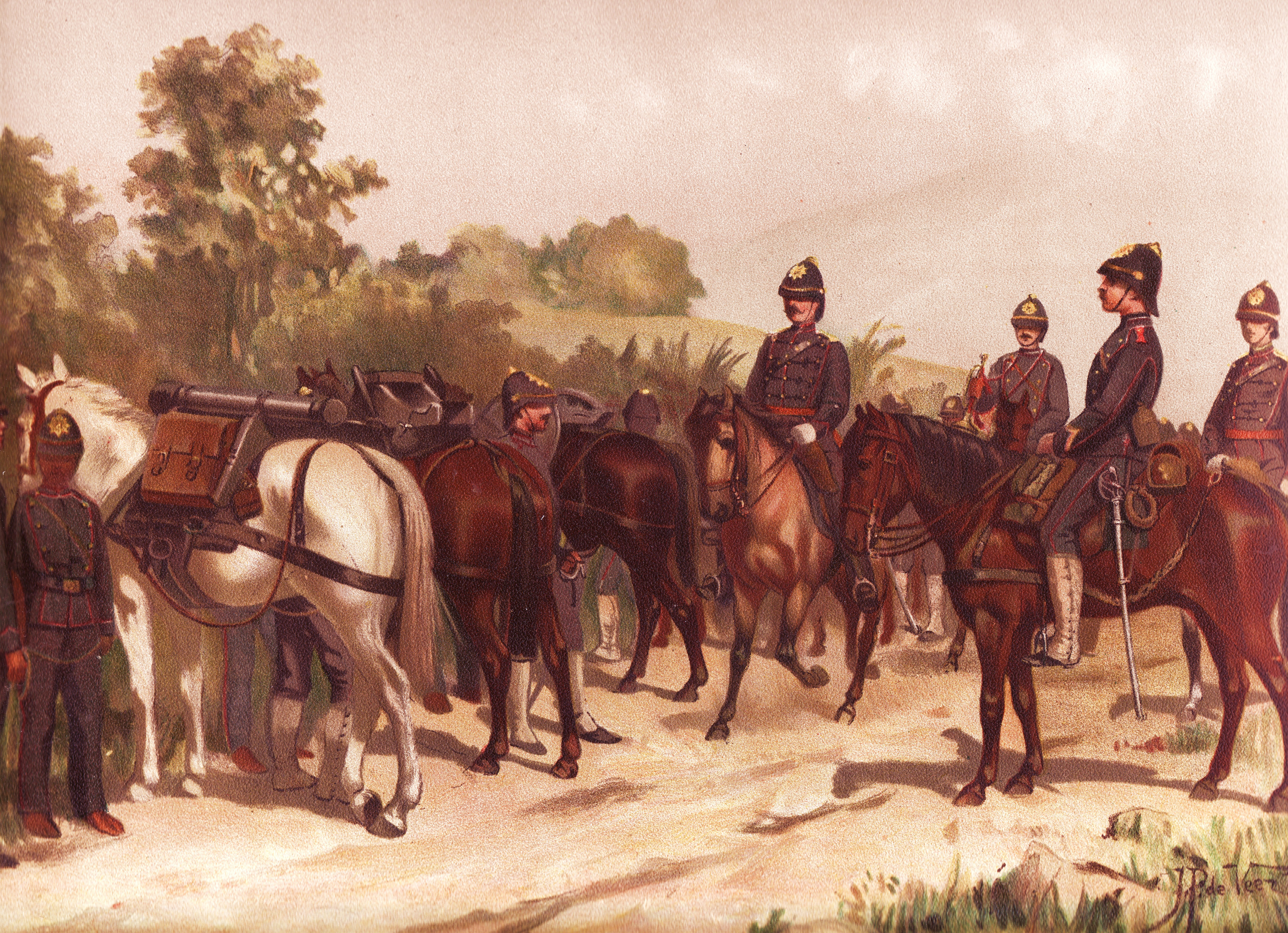 Bergartillerie Oostindisch leger in 1896